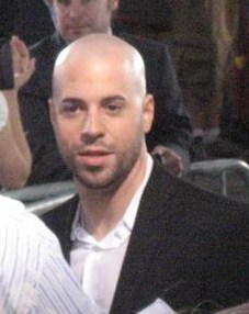 Chris Daughtry in Los Angeles, California on May 24, 2006